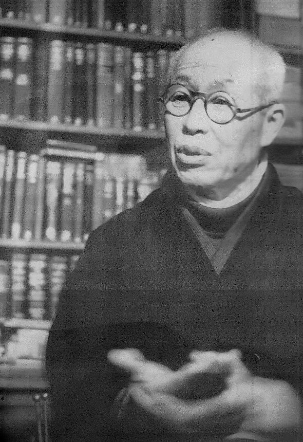 Kanzo Uchiyama